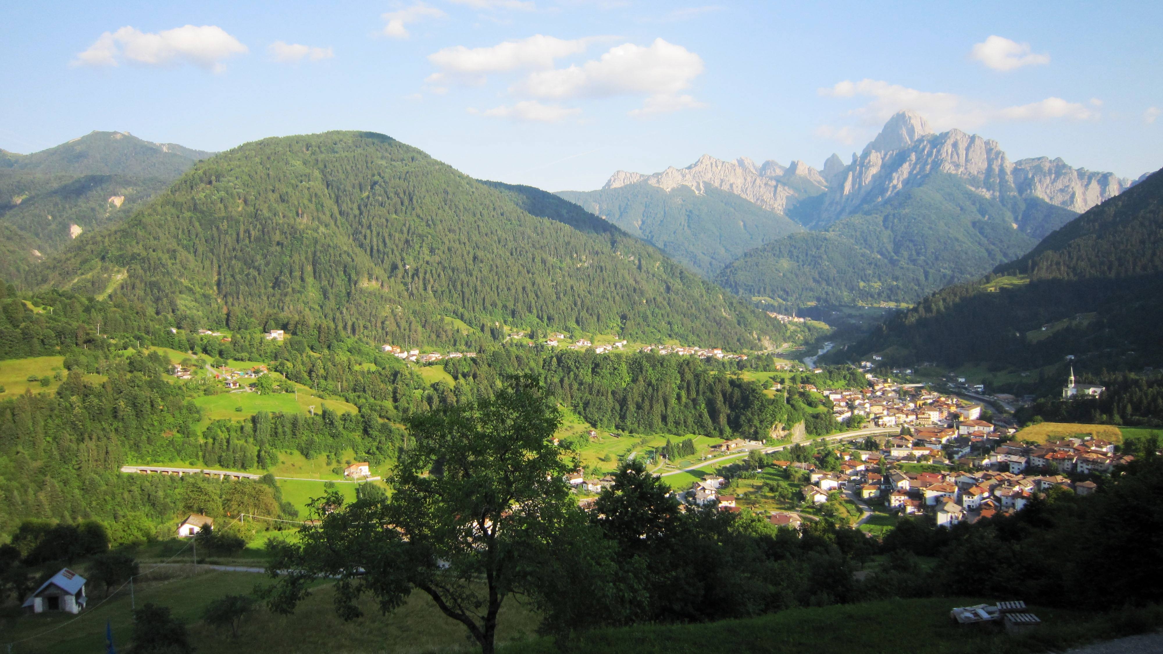 panorama